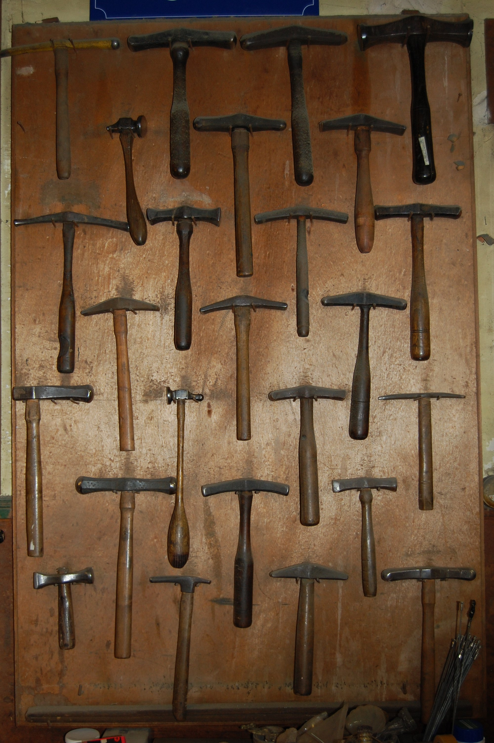 Hammers, used for silversmithing work at Evellin's goldsmiths workwhop in Rennes